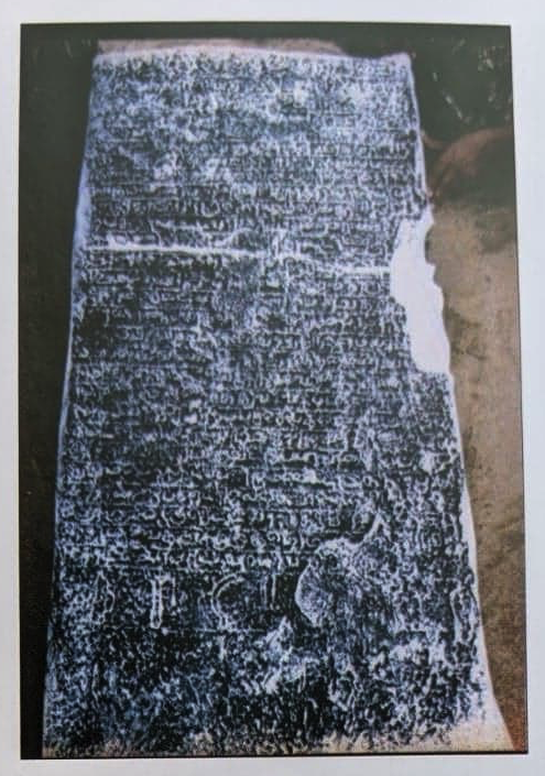 Dediyamulla Virakotti slab inscription